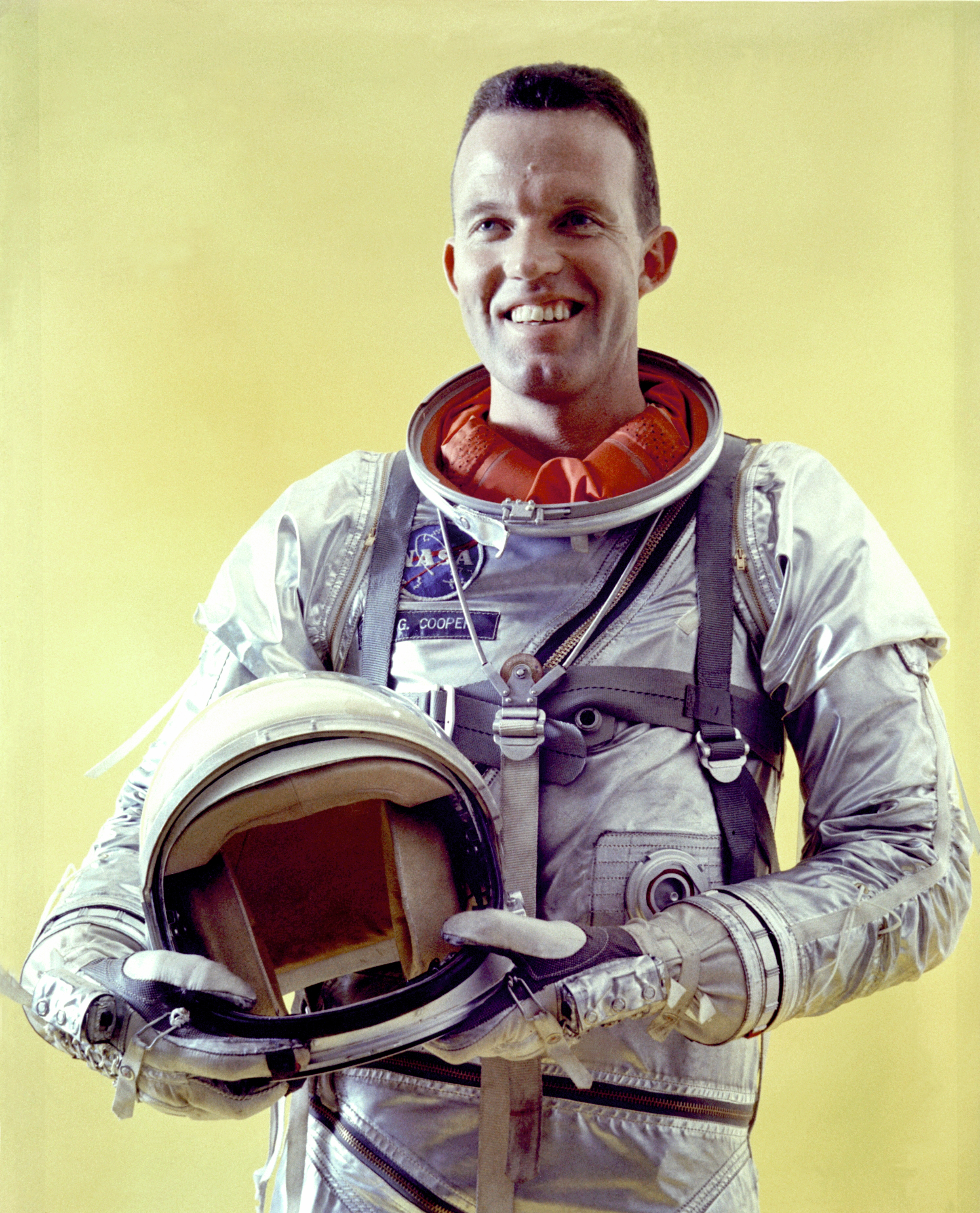 Mercury Astronaut L. Gordon Cooper Jr., in his pressure suit with helmet during Mercury-Atlas 9 prelaunch activities.